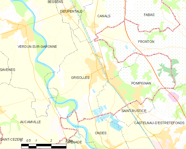 Map of French municipality Grisolles